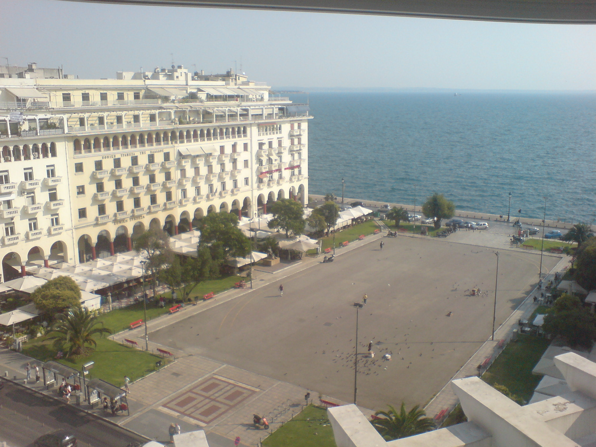 Thessaloniki